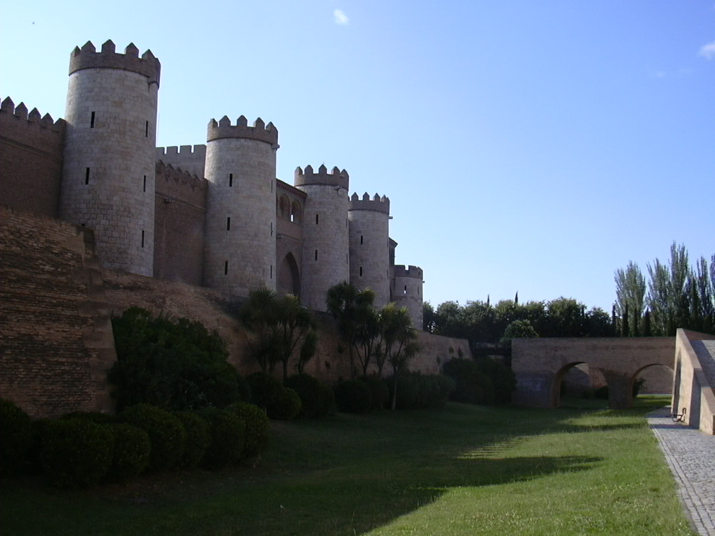 La Aljafería - Front view